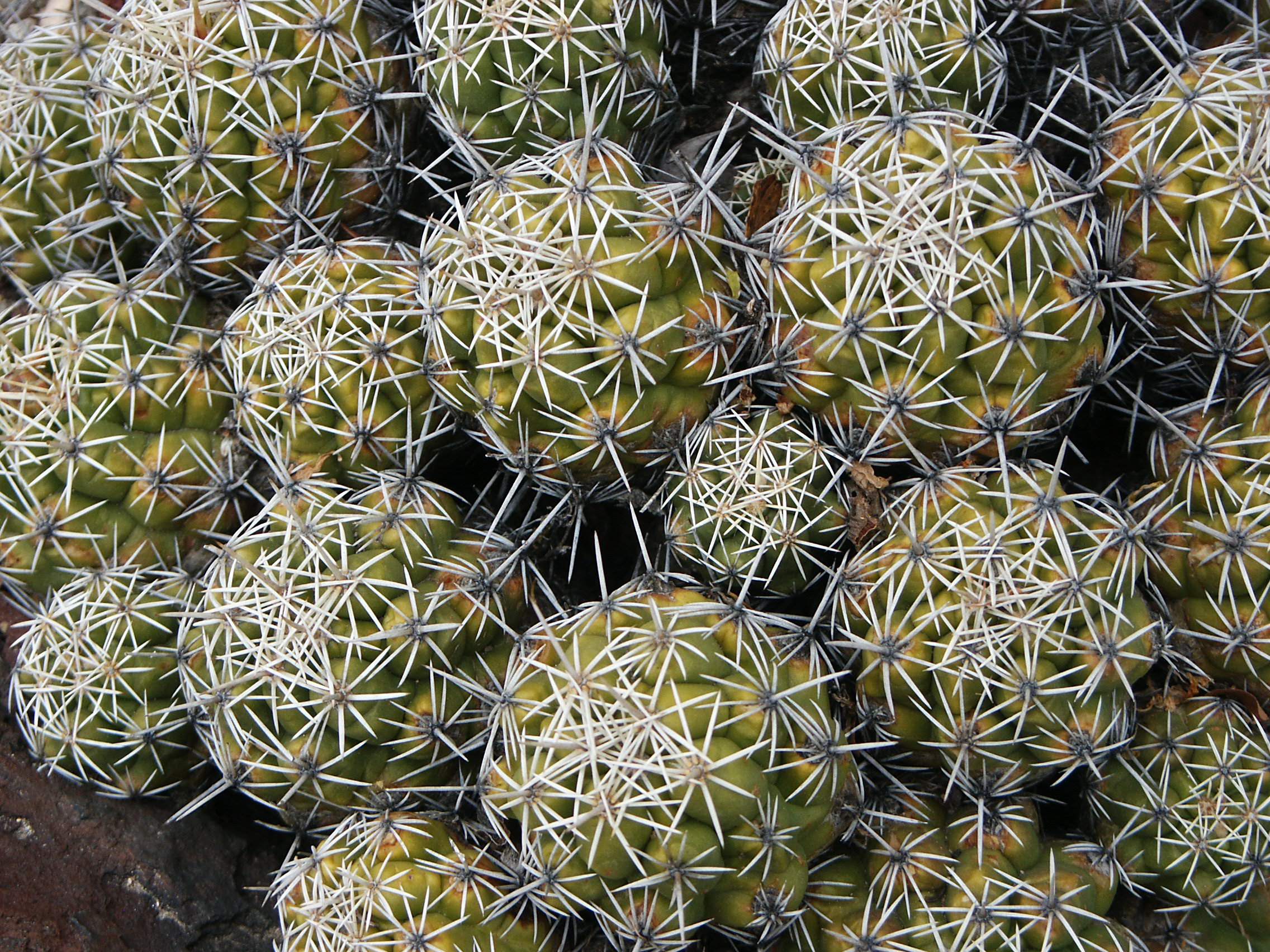 Thelocactus Leucacanthus, Mexico, Huntington Library Desert Garden May 2009